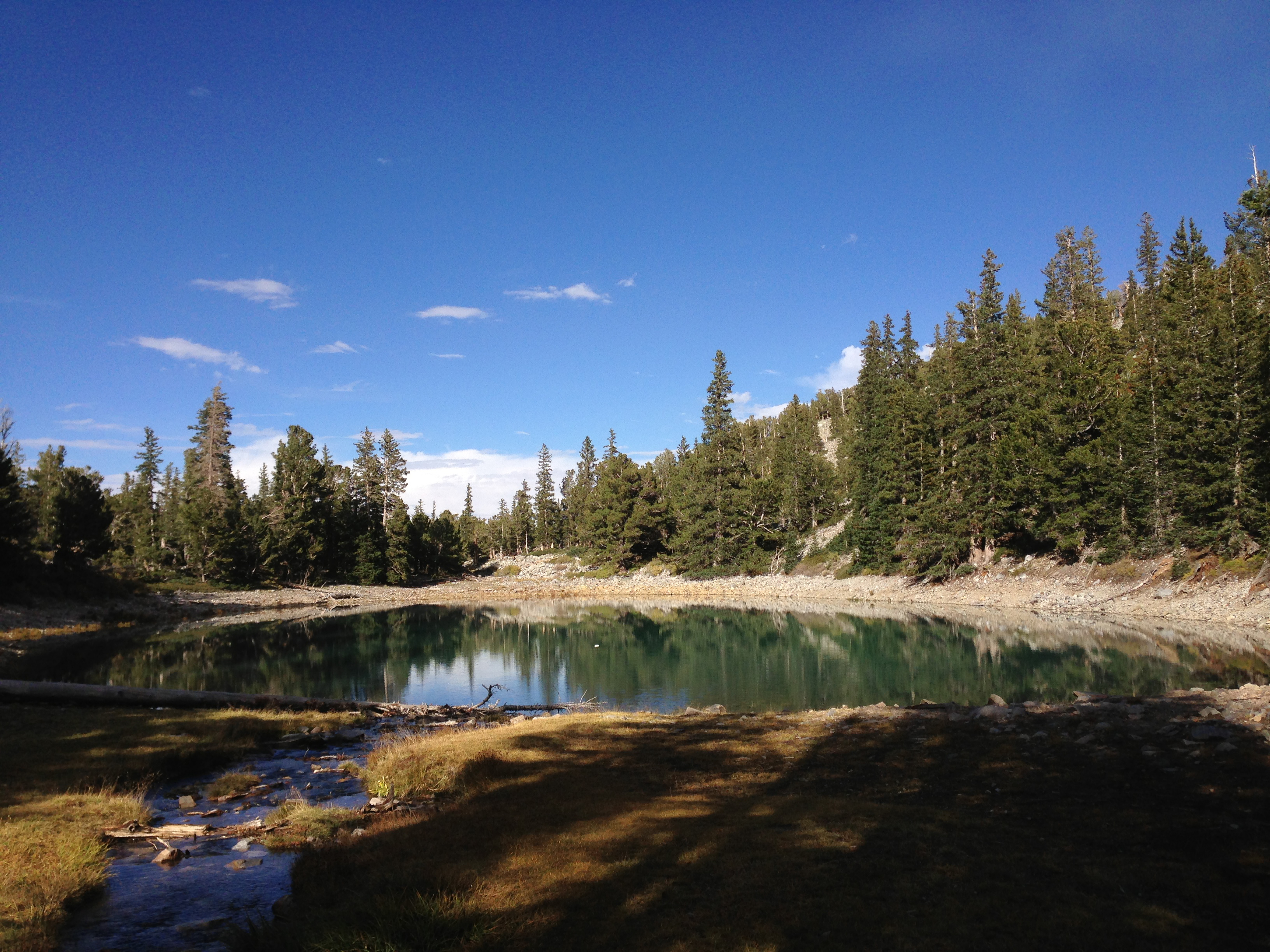 View of Teresa Lake from the Alpine Lakes Trail in Great Basin National Park, Nevada